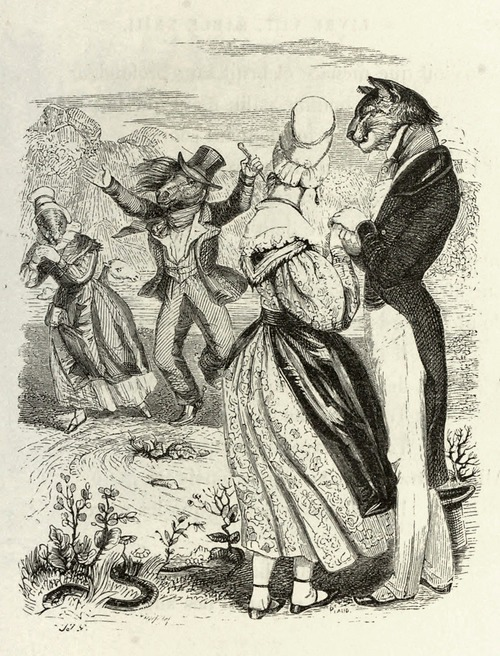 J.J.Grandville's illustration of La Fontaine's fable Le torrent et la rivière from the 1855 edition